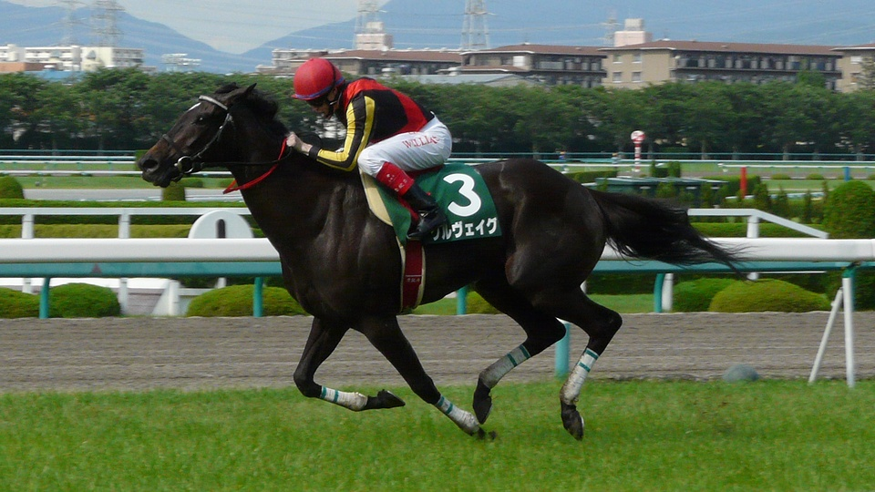 Gullveig20120617-1